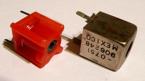 Adjustable High Frequency (HF) inductor outside the mu-metal housing.